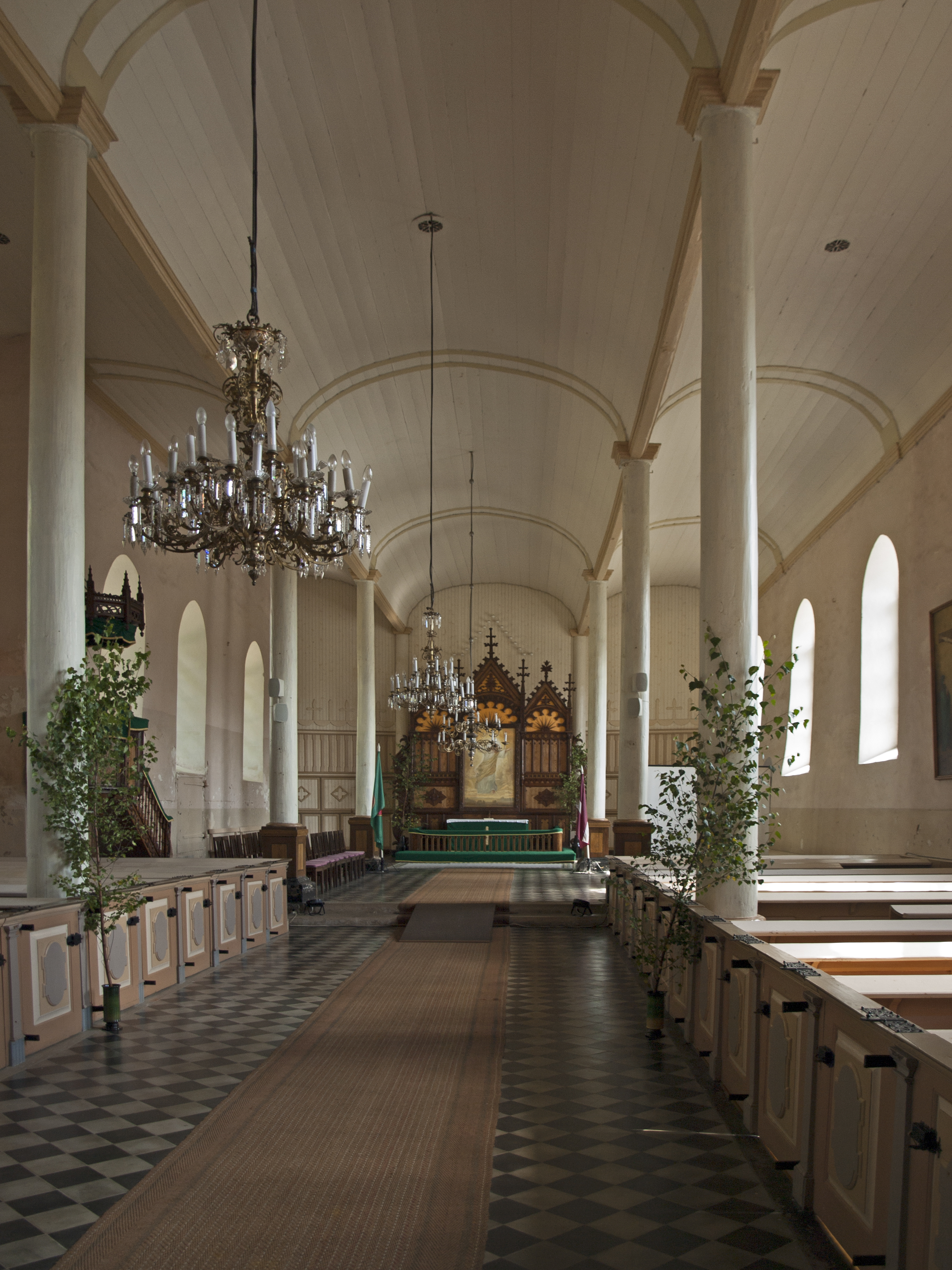 Interior of church of Saint John, Aizpute